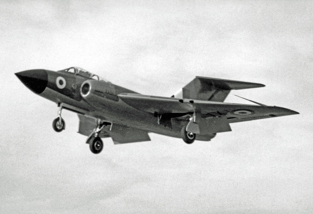 Gloster Javelin FAW.1 XA563 demonstrating at the Farnborough air show in 1955